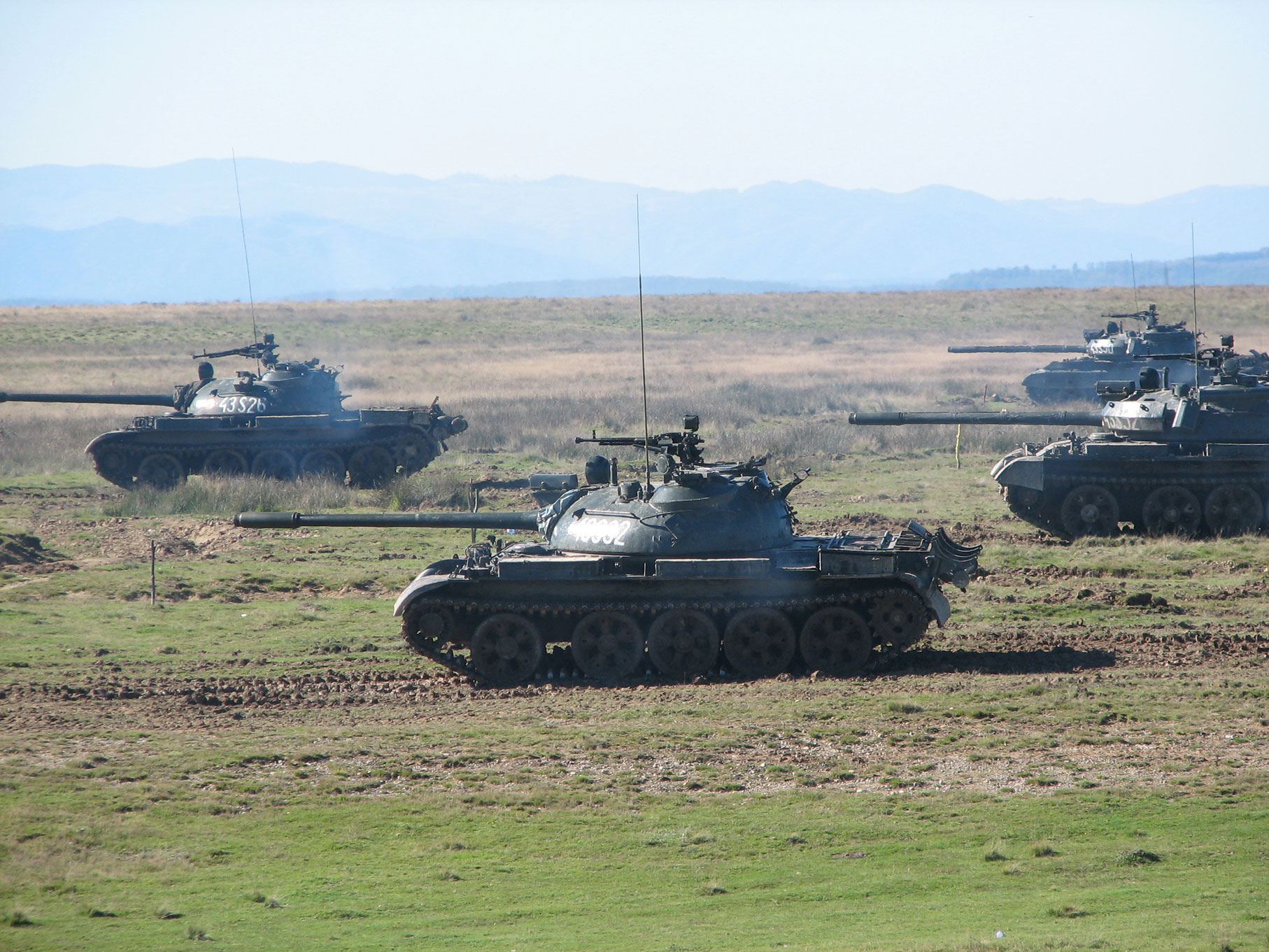 T-55 tanks at Cincu firing range during MILREX '07 military exercise.